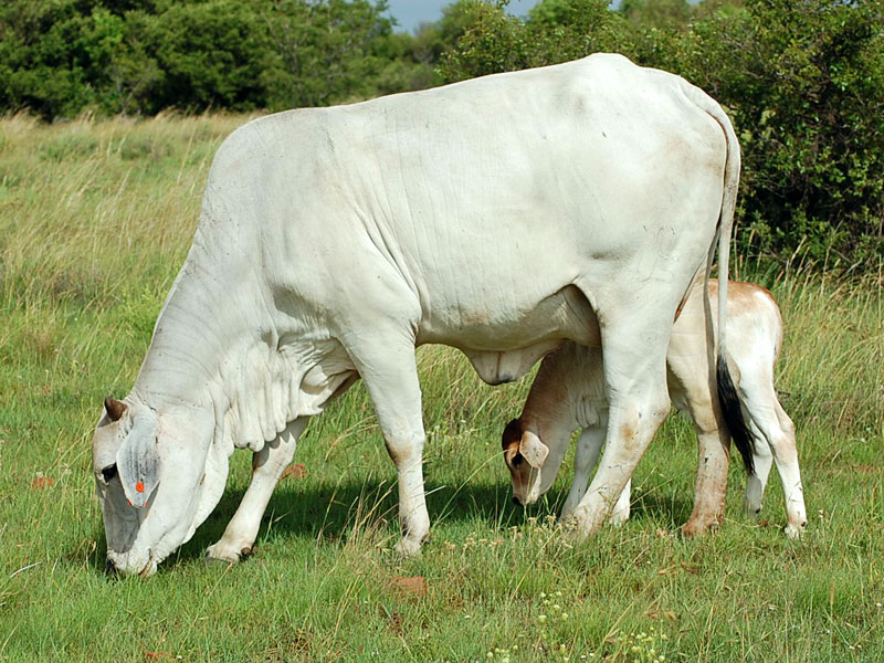 The 3 year old Brahman cow, named Kolenki, with her bull calf, named Portugesie, born 3 days before on Sunday 13 December 2009 on the farm Rocky Ridge in the district Potchefstroom, North West Province, South Africa. She hid him in the bush for two days, before she came to introduce him. This is her first calf, she will hopefully have another 10 calves, one each year, they are pregnant for 9 months. He's not eating the grass, he drinks milk, he's just mimicking his mother. You might make out the mark DCS burnt on her buttock, as required by law. The D is turned right and the C is turned left. Every farmer has his own burn mark, registered with the Department of Agriculture. In her ear is a plastic ear tag, the number is not visible, it's on the inside. She weighs 500 kg.